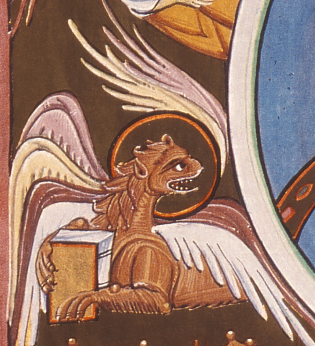 The Lion